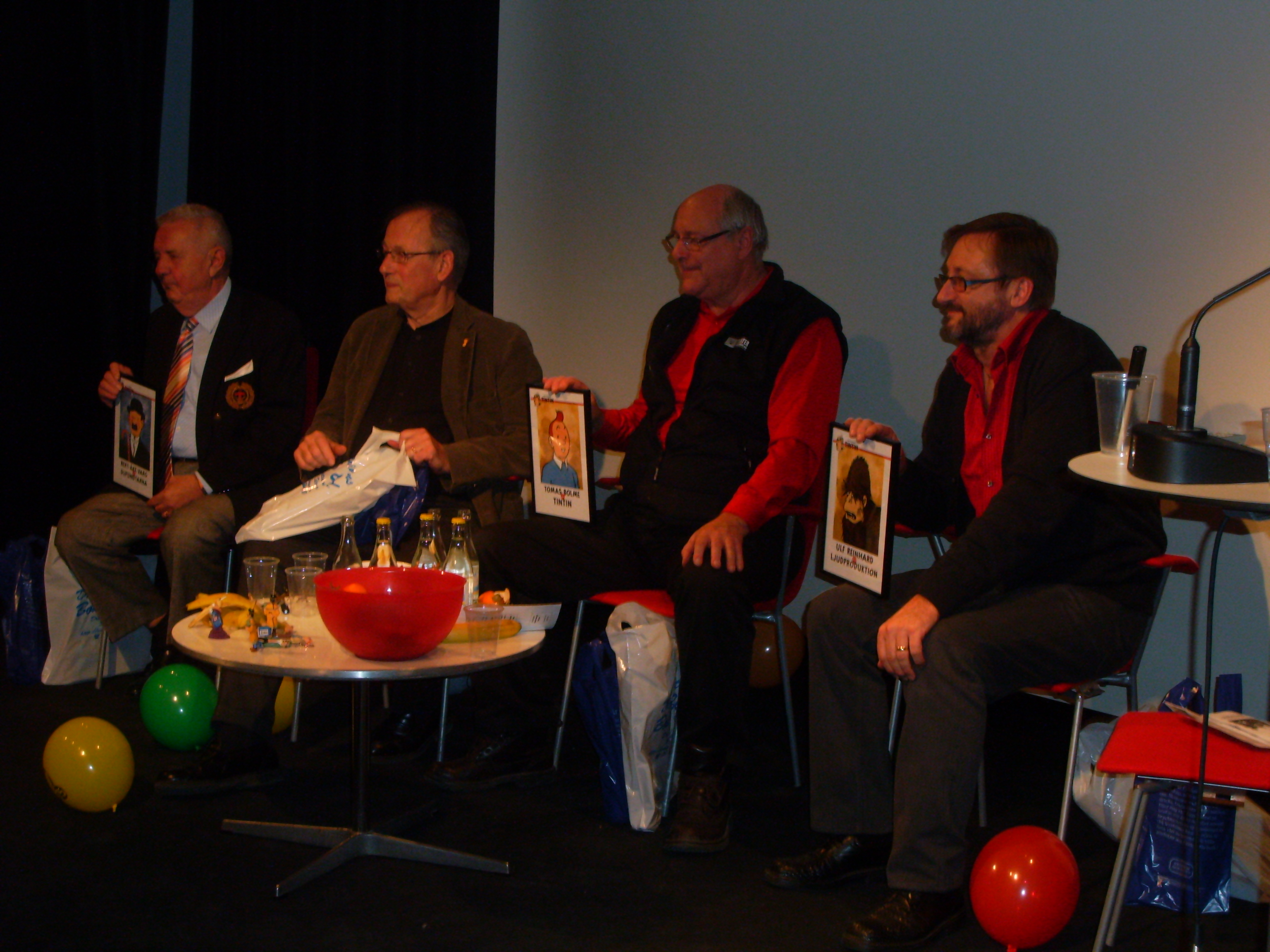 From left: Bert-Åke Varg, Lars Edström and Tomas Bolme. Swedish actors at Kulturhuset.